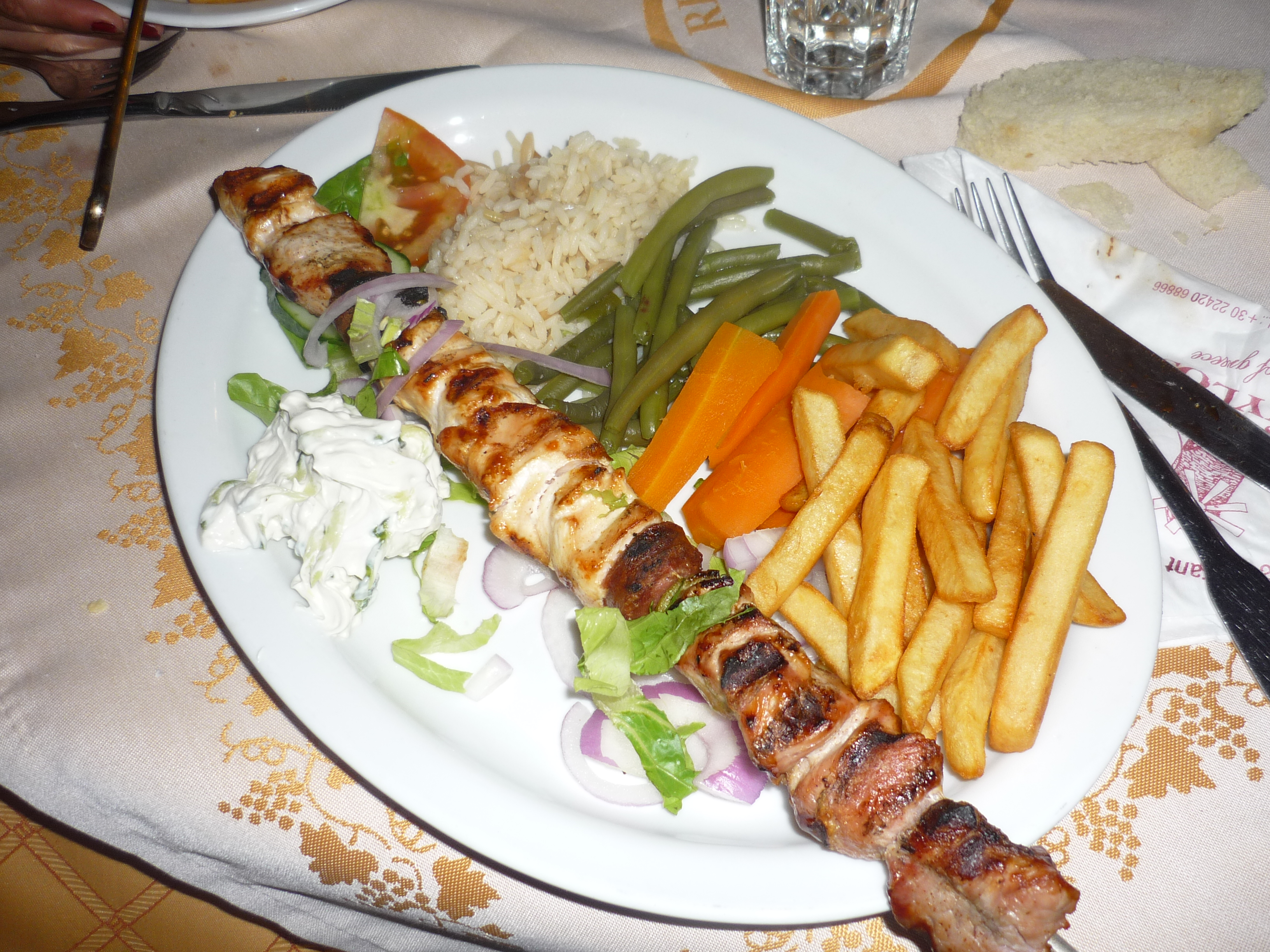 Souvlakiplate